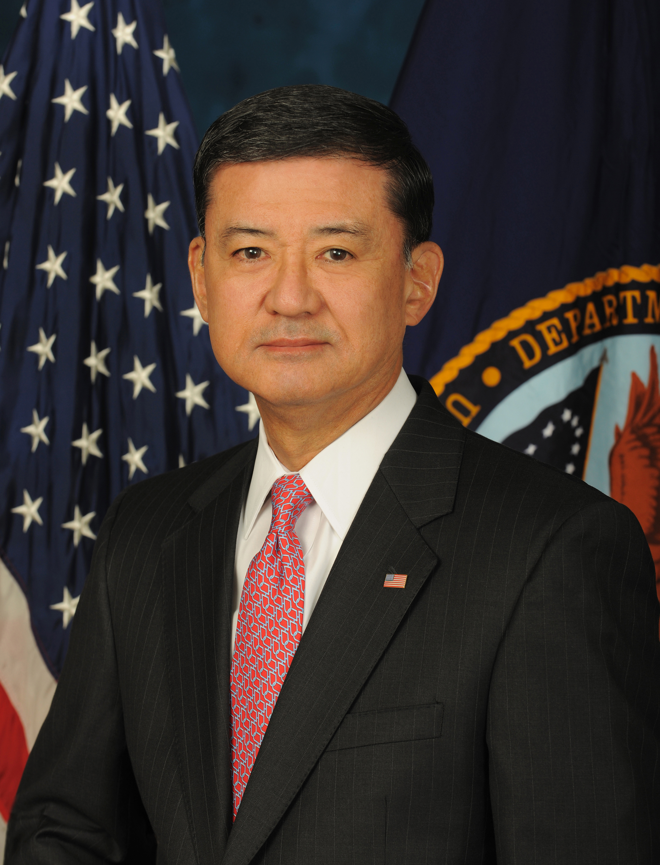 Official image of Secretary of Veterans Affairs Eric Shinseki